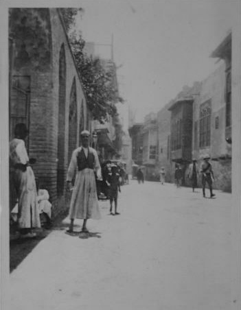 View of River Street, Mosul, Iraq, World War I, 1916-1919